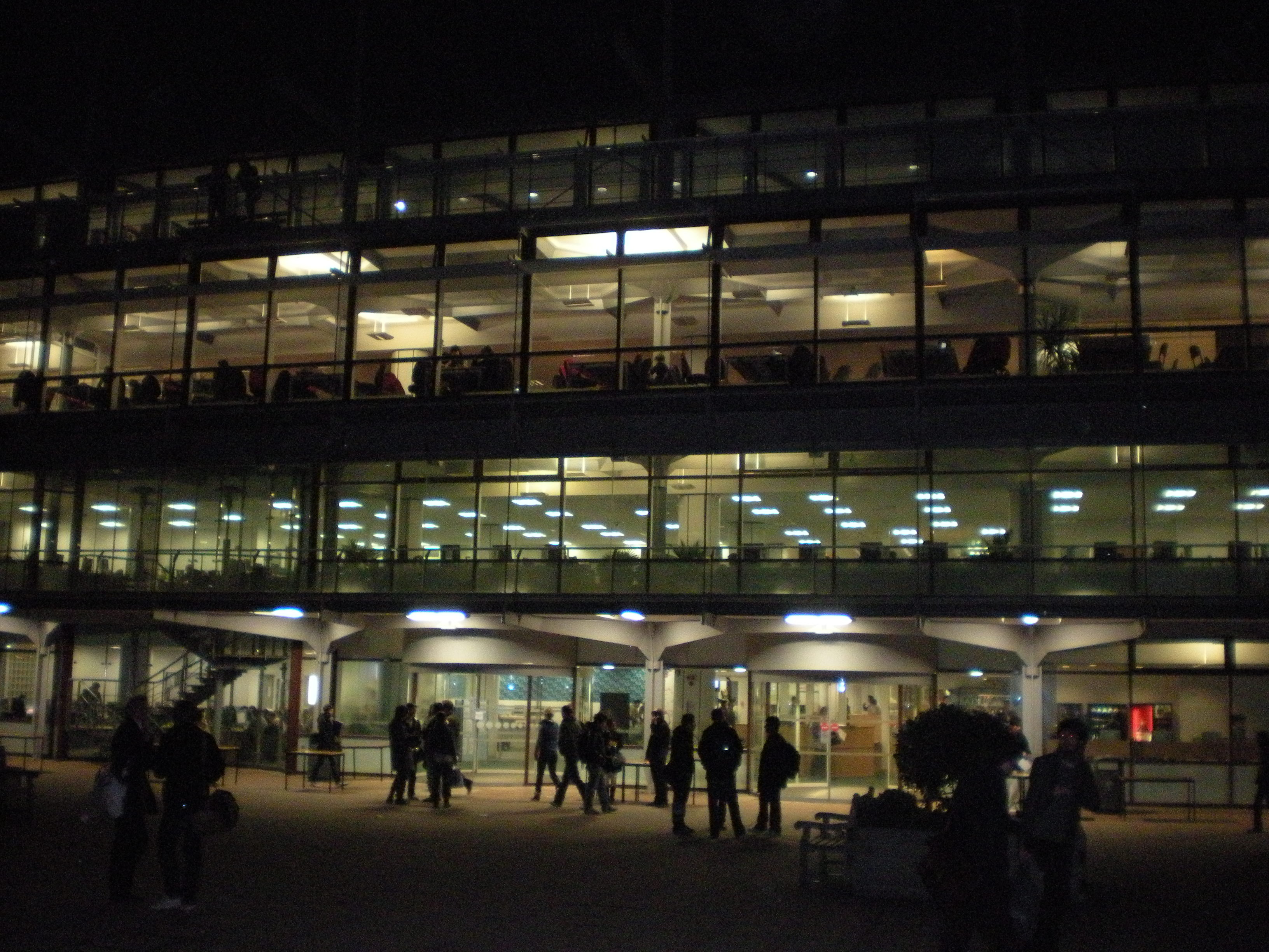 University of Bath library